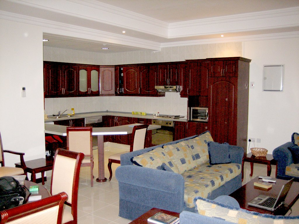 cuisine avec salon, kitchen with living room